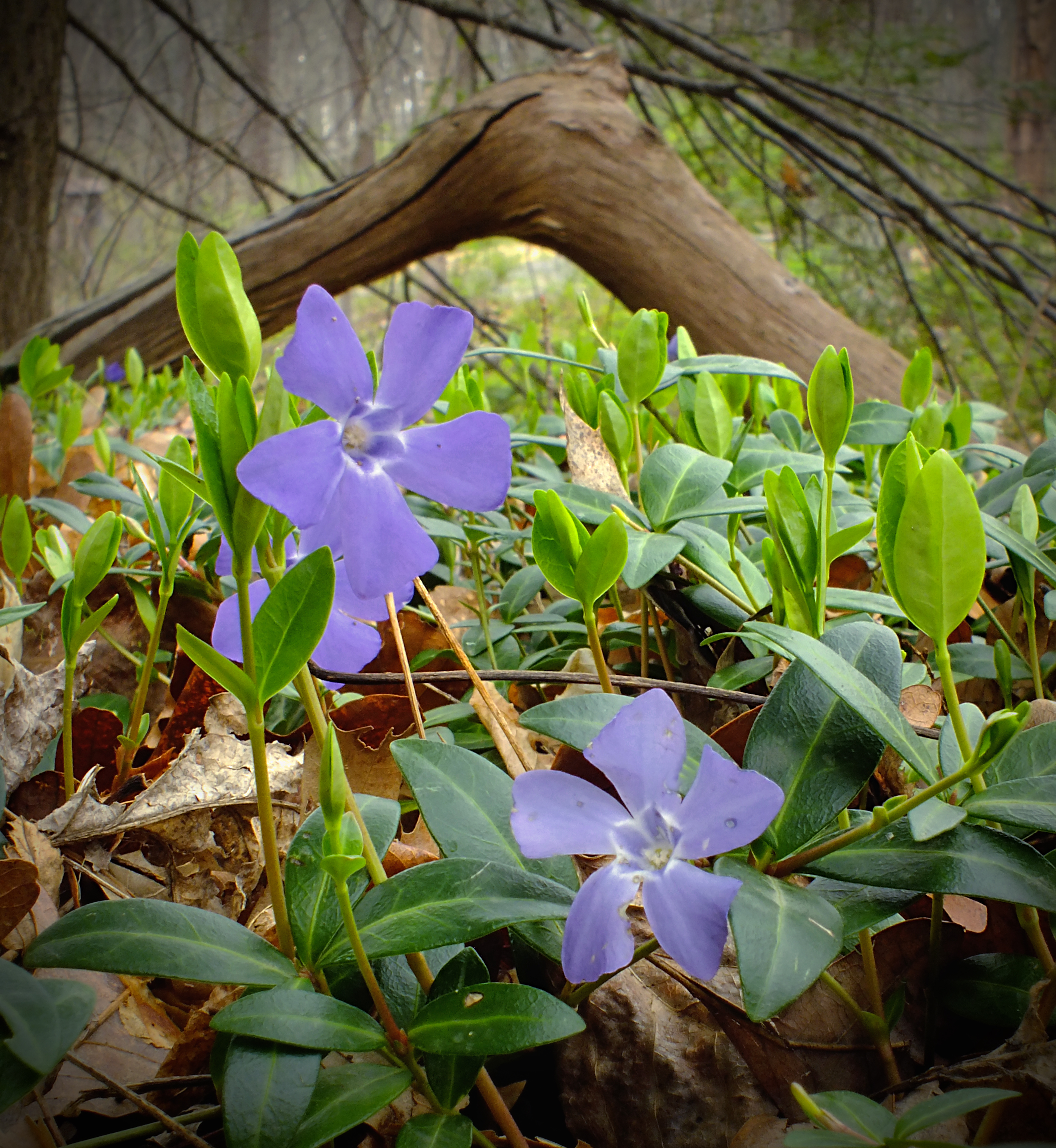 Periwinkle (Vinca minor), Jacobsburg Environmental Education Center, Northampton County. Name variant: creeping myrtle. A Eurasian plant now common to moist woodlands of eastern North America.